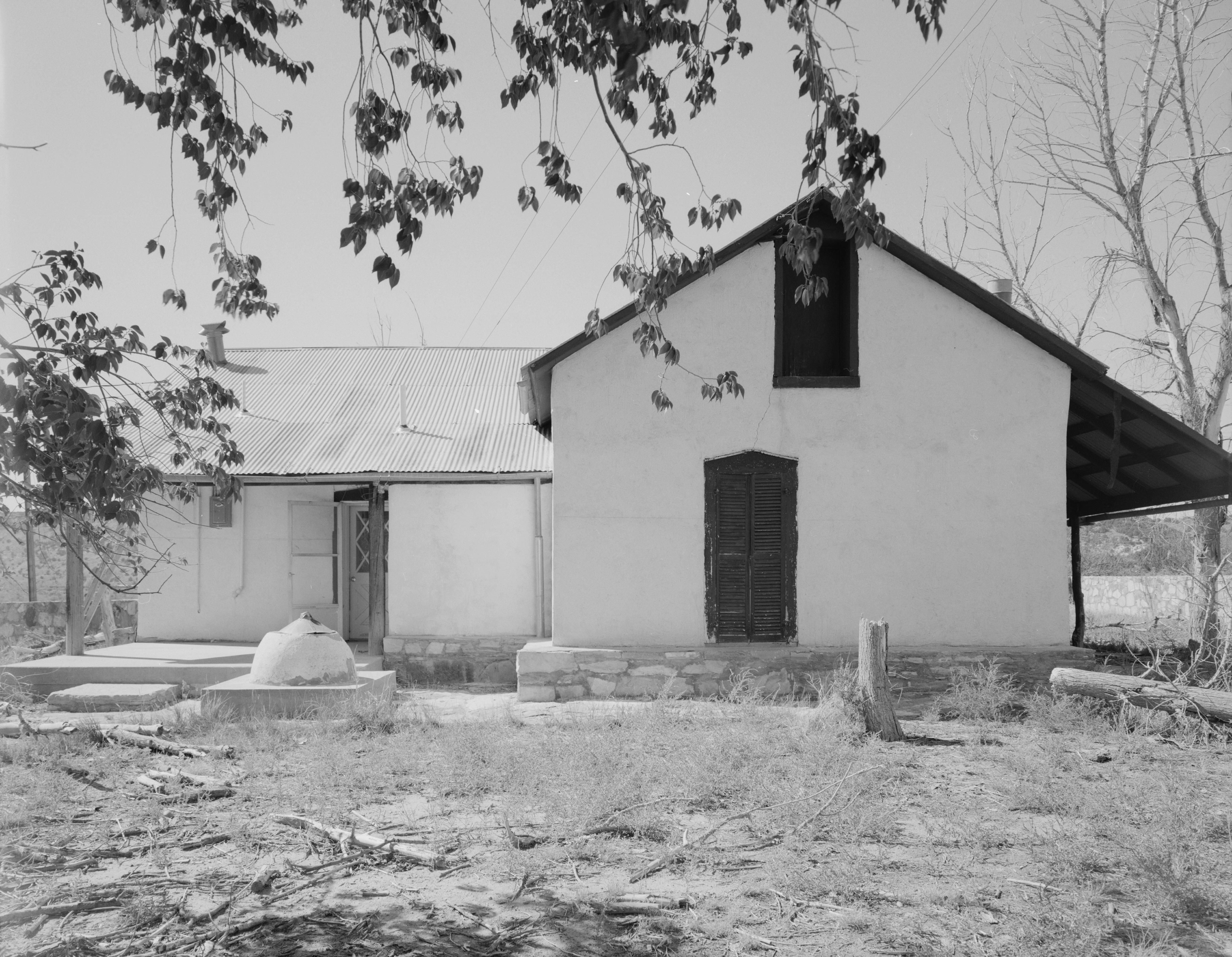 Front of the residence at the Rourke Ranch Historic District, located on the Comanche National Grassland near La Junta in Las Animas County, Colorado, United States. Built in 1875, it is listed on the National Register of Historic Places.